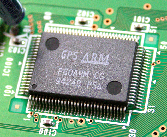 ARM60 CPU in the 3DO Interactive Multi Player Panasonic FZ-10.